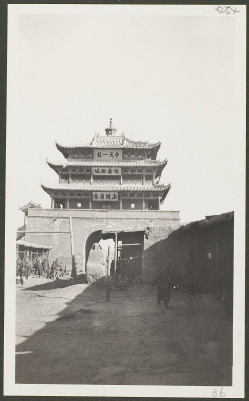 the photo of Yongchang Bell and Drum Tower which taken in 1910.